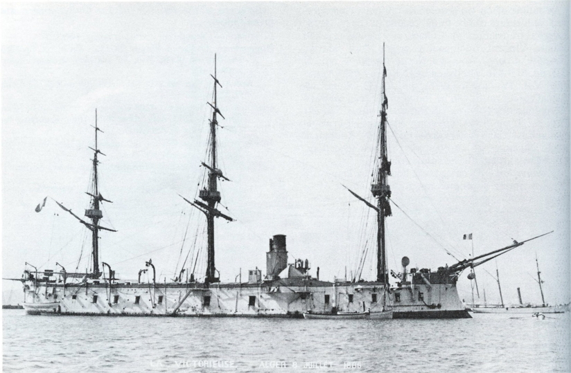 The French ironclad Victorieuse in Algiers, 8 July 1886